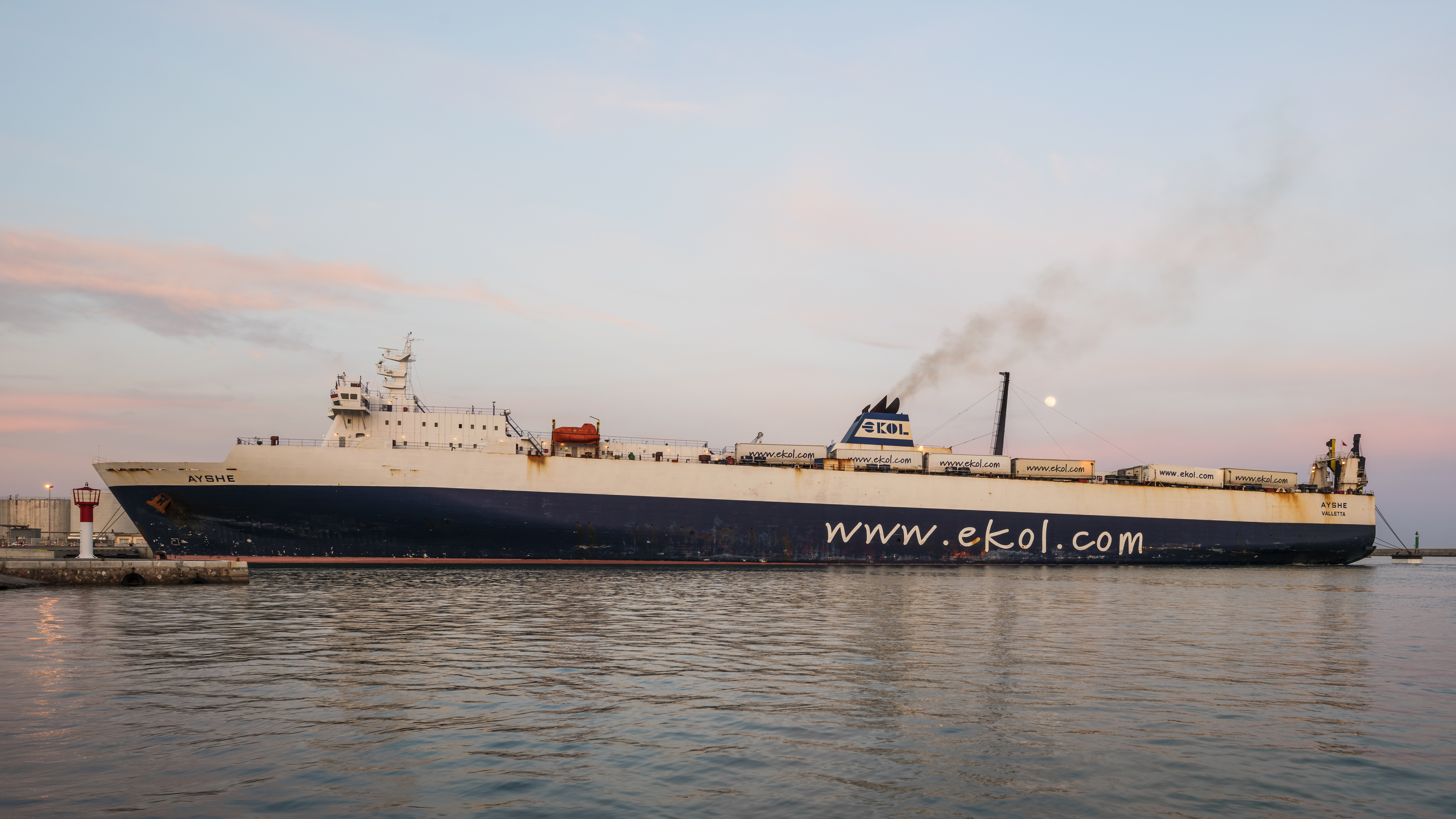 Ayshe (ship, 1999). Sète, Hérault, France